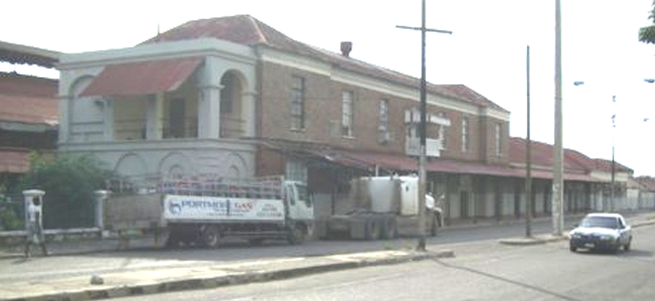 Front elevation of Kingston railway station in 2007.